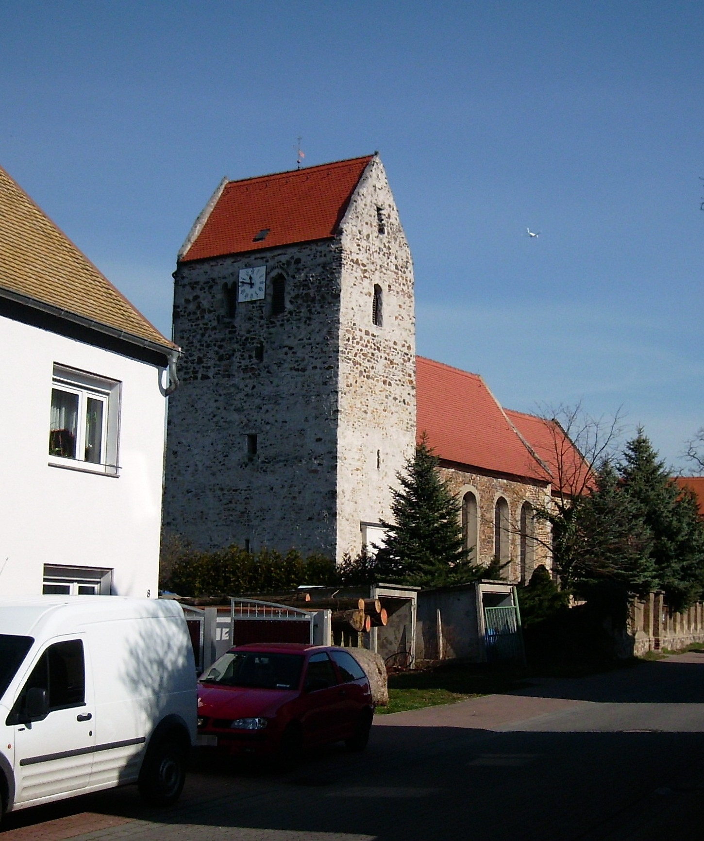 Lutheran church in Zwochau (Nordsachsen district, Saxony)